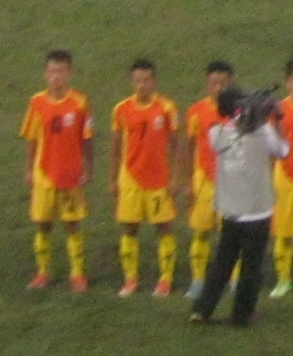 Chencho Gyeltshen (center) lining up for Bhutan before a match against the Maldives in the 2013 SAFF Championship.